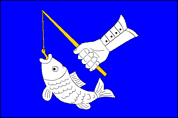 Municipal flag of České Meziříčí village, Rychnov nad Kněžnou District, Czech Republic.